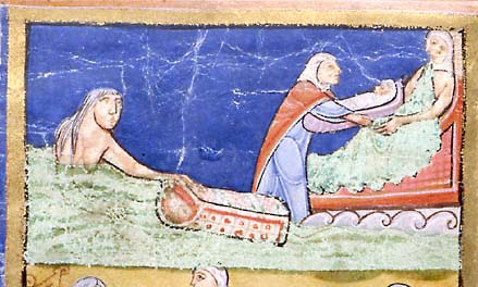 Pierpont Morgan Library. Manuscript. M.724. Title: Recto, Zone 1. Canterbury, England, 1155-1160 Description: 1 miniature, full-page, prefatory : painting, oDetail, Zone 1, Panel 2: 2a) Moses brought to Daughter of Pharaoh 2b) Moses: Child at Court